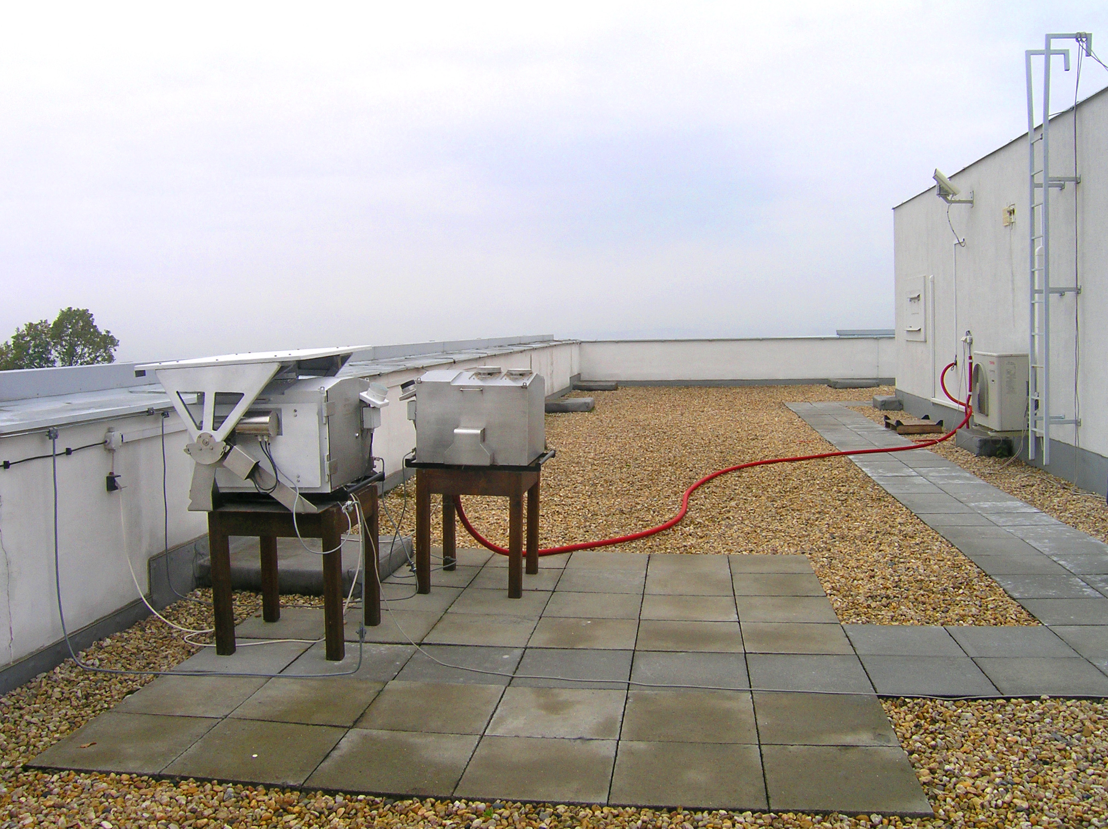 Fireball Cameras at the Czech Astronomical Institute in Ondřejov